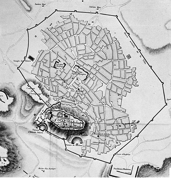 Map of the city of Athens, made before 1800 during the Ottoman Empire era.